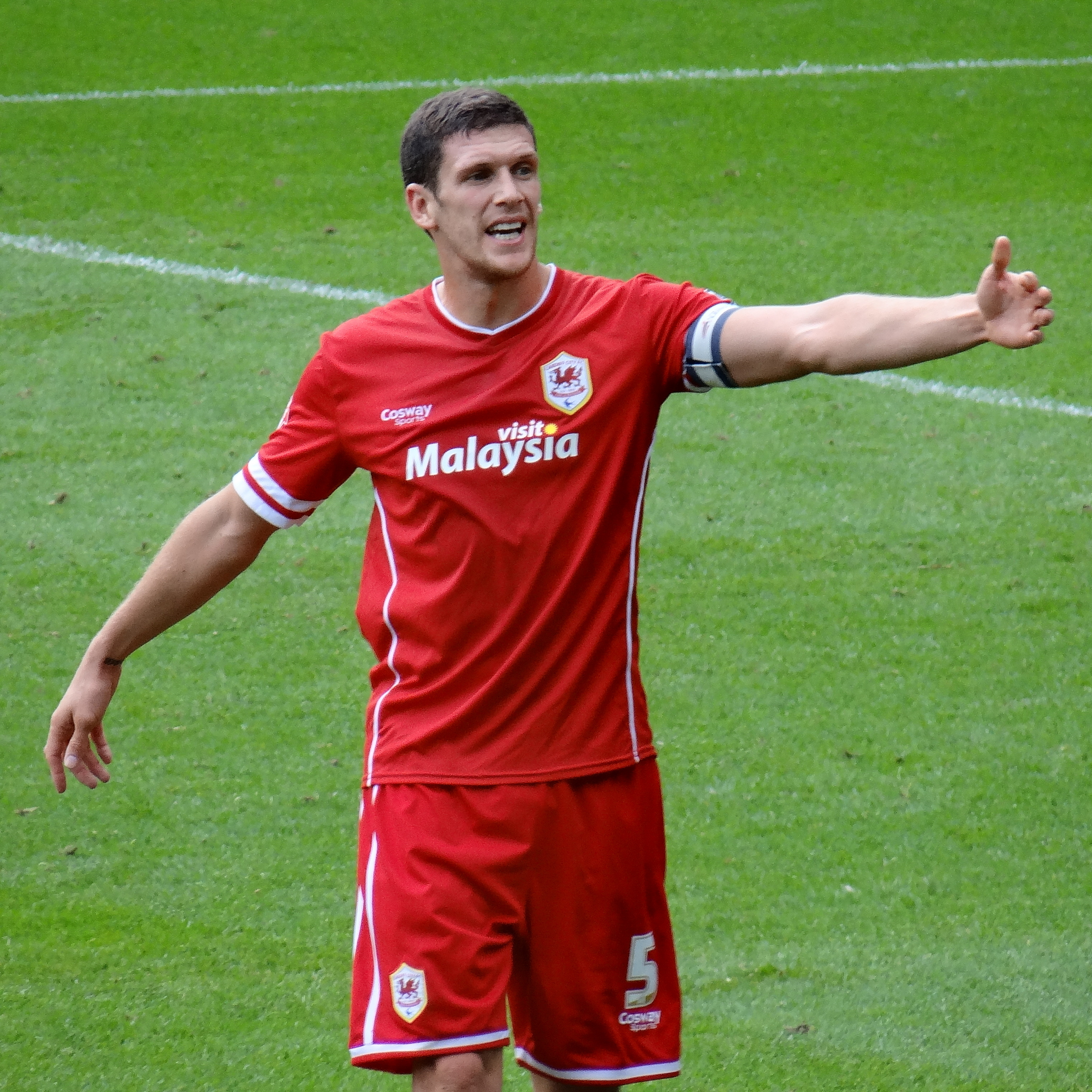 English football player captured during the game Cardiff City - Huddersfield Town.